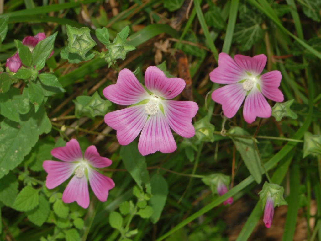 Lavatera punctata - Genova, Italy